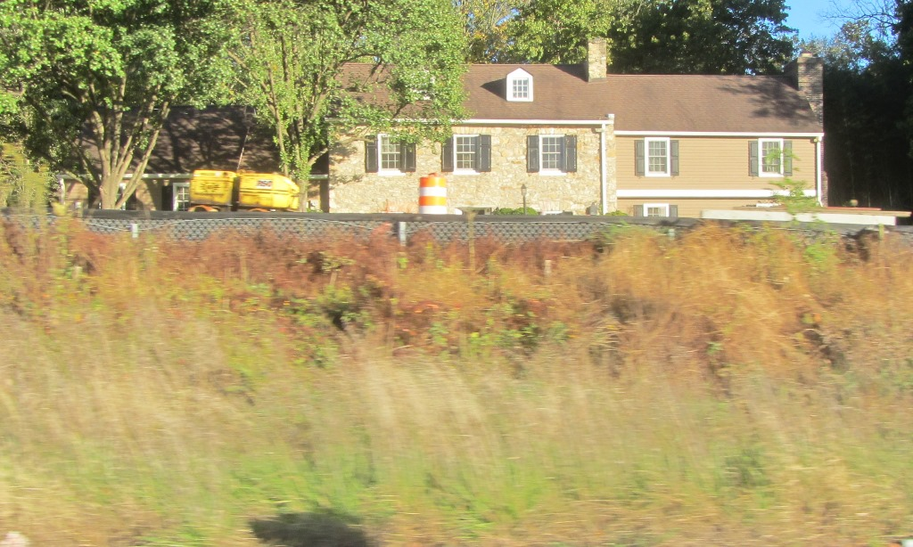 Oakland Mills Store and Dwelling. Circa 1798 Columbia, Maryland